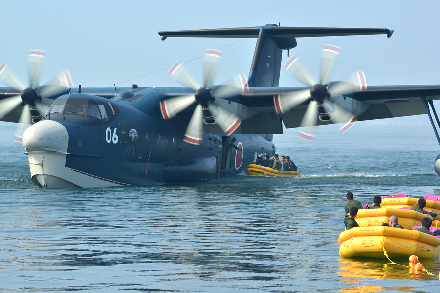 JMSDF US-2 RescueFlyingboat in Exercise